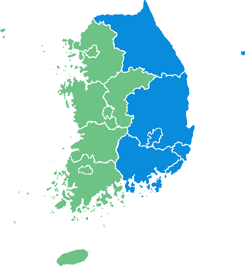 map of seats of South Korean parliamentary election, 2004